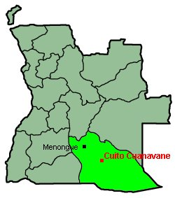 Menongue and Cuito Cuanavale in Angola